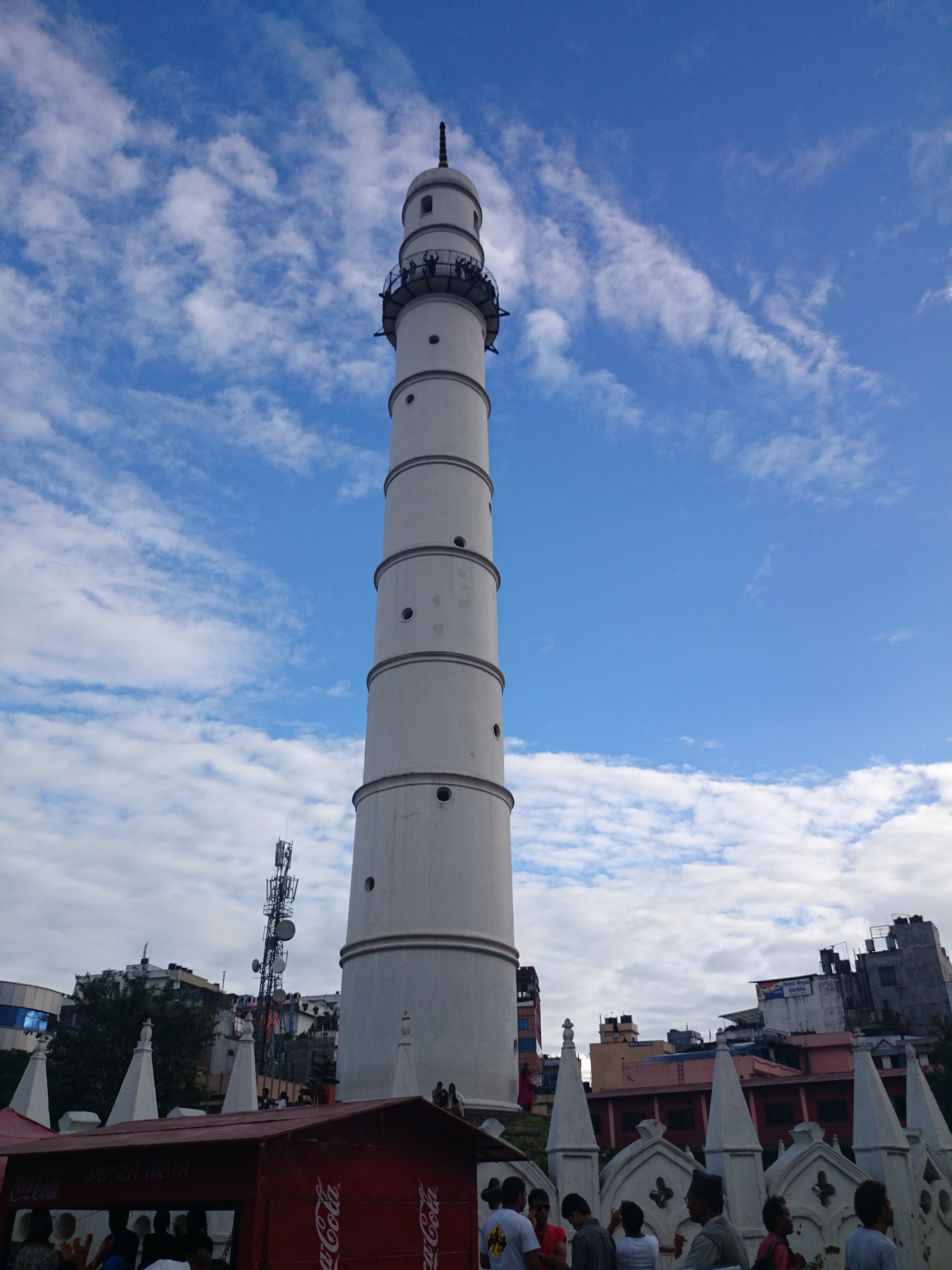 Once the skyline monument of nepal lost in the devastating earth quake of April 25. This structure was built in mugal style.